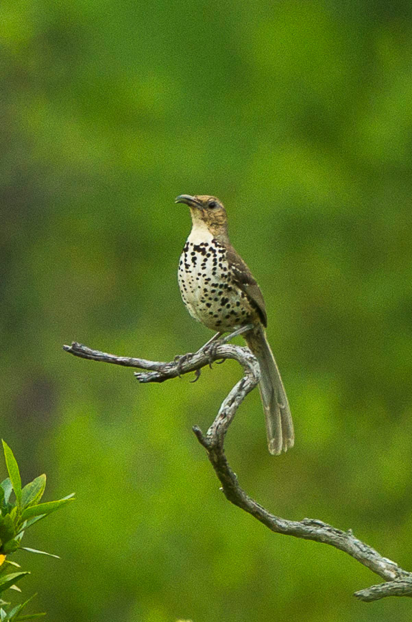 Ocellated Trasher - Oaxaca - Mexico _S4E9632